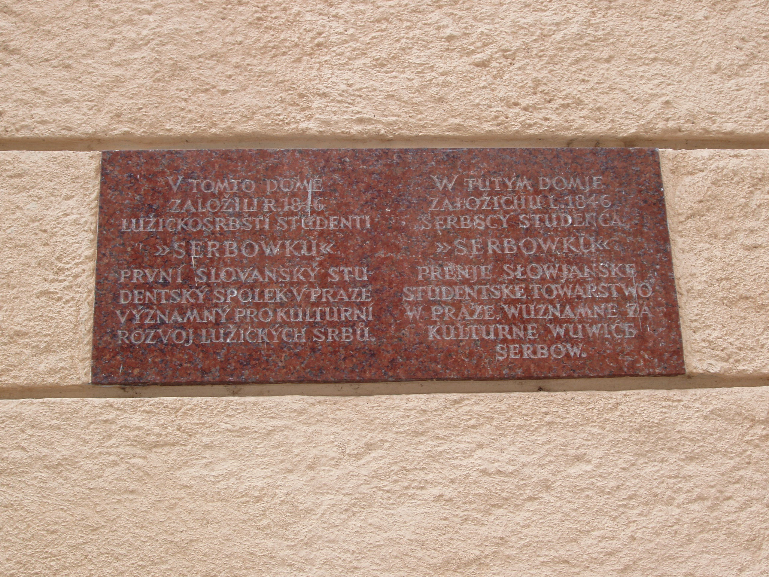 Bilingual, Czech-Sorbian plaque in Prague, Lesser Town, U lužického semináře No. 90/13. The lettering reads: “In this house Sorbian students founded the association »Serbowka« in 1846, the first Slavic students' association in Prague, significant for the cultural development of the Sorbs.” Hornjoserbsce: Dwurěčny čěsko-serbski napis při něhdyšim Serbskim seminarje w Praze. „W tutym domje załožichu l. 1846 serbscy studenća »Serbowku« prěnje słowjanske studentske towarstwo w Praze wuznamne za kulturne wuwiće Serbow.“